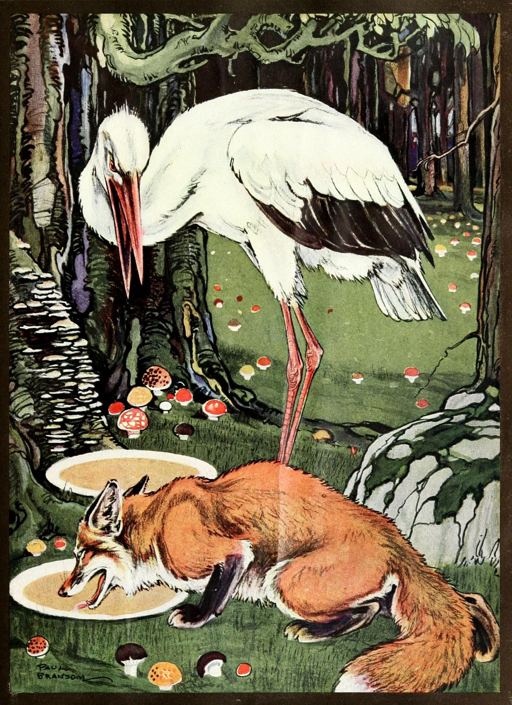 Scan of illustration in a collection of fables.